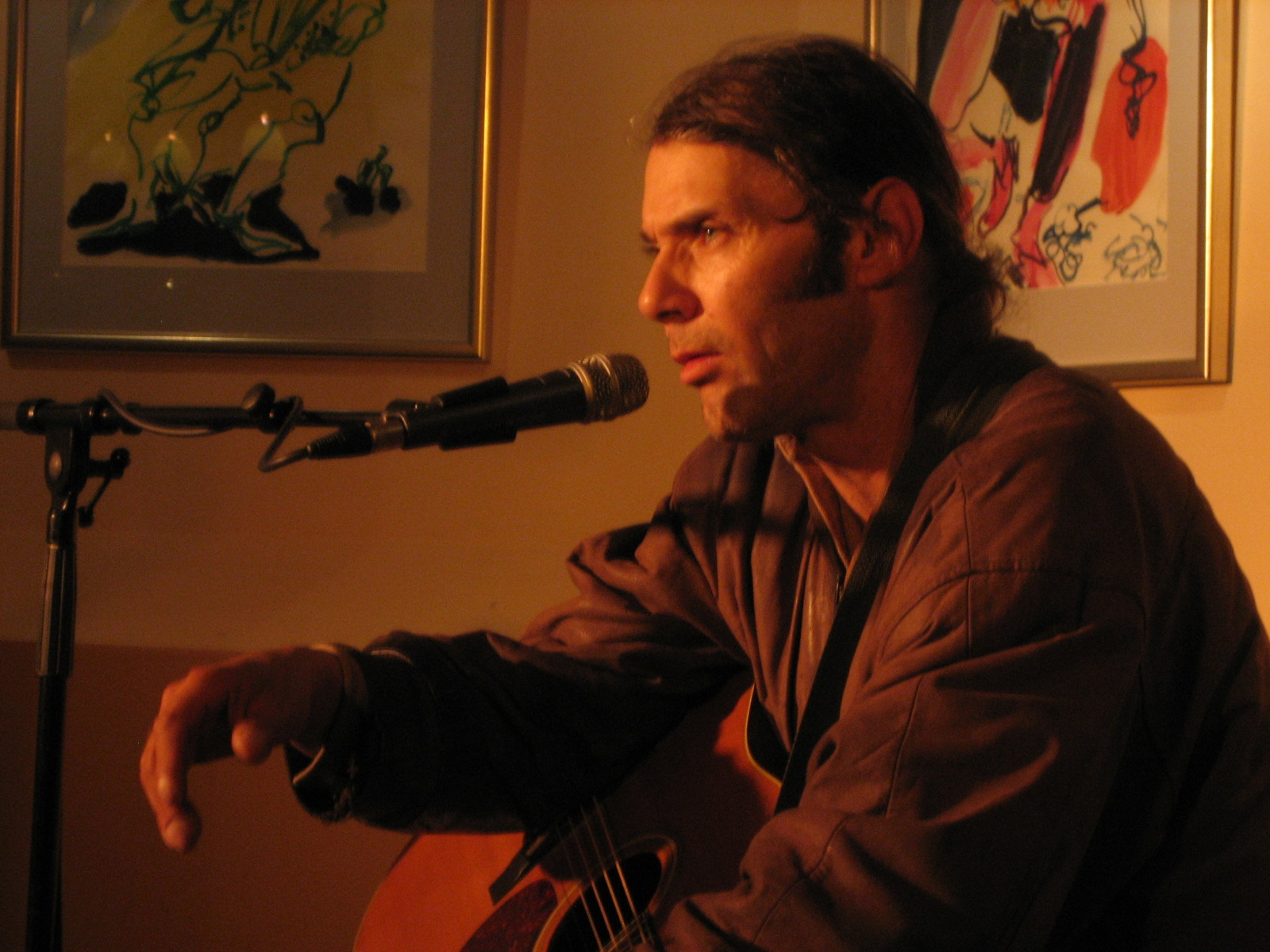 Malcolm Holcombe @ Plein Theater, Amsterdam, Netherlands (30 May 2007)